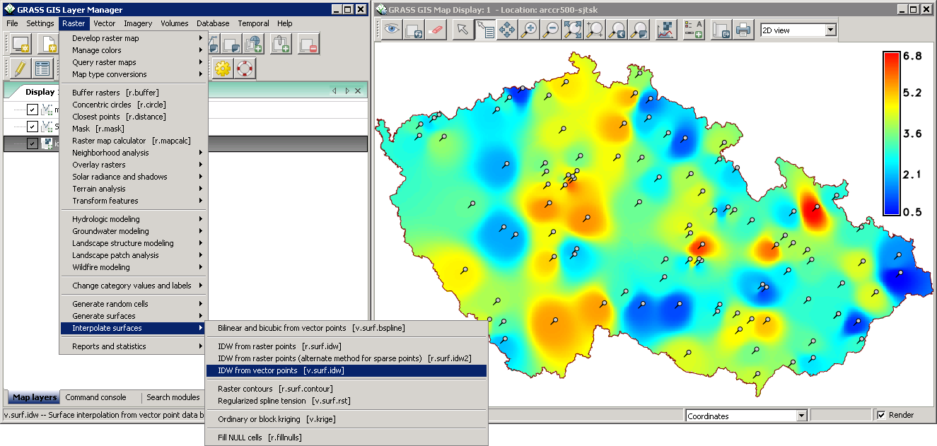 wxPython-based GRASS GIS GUI